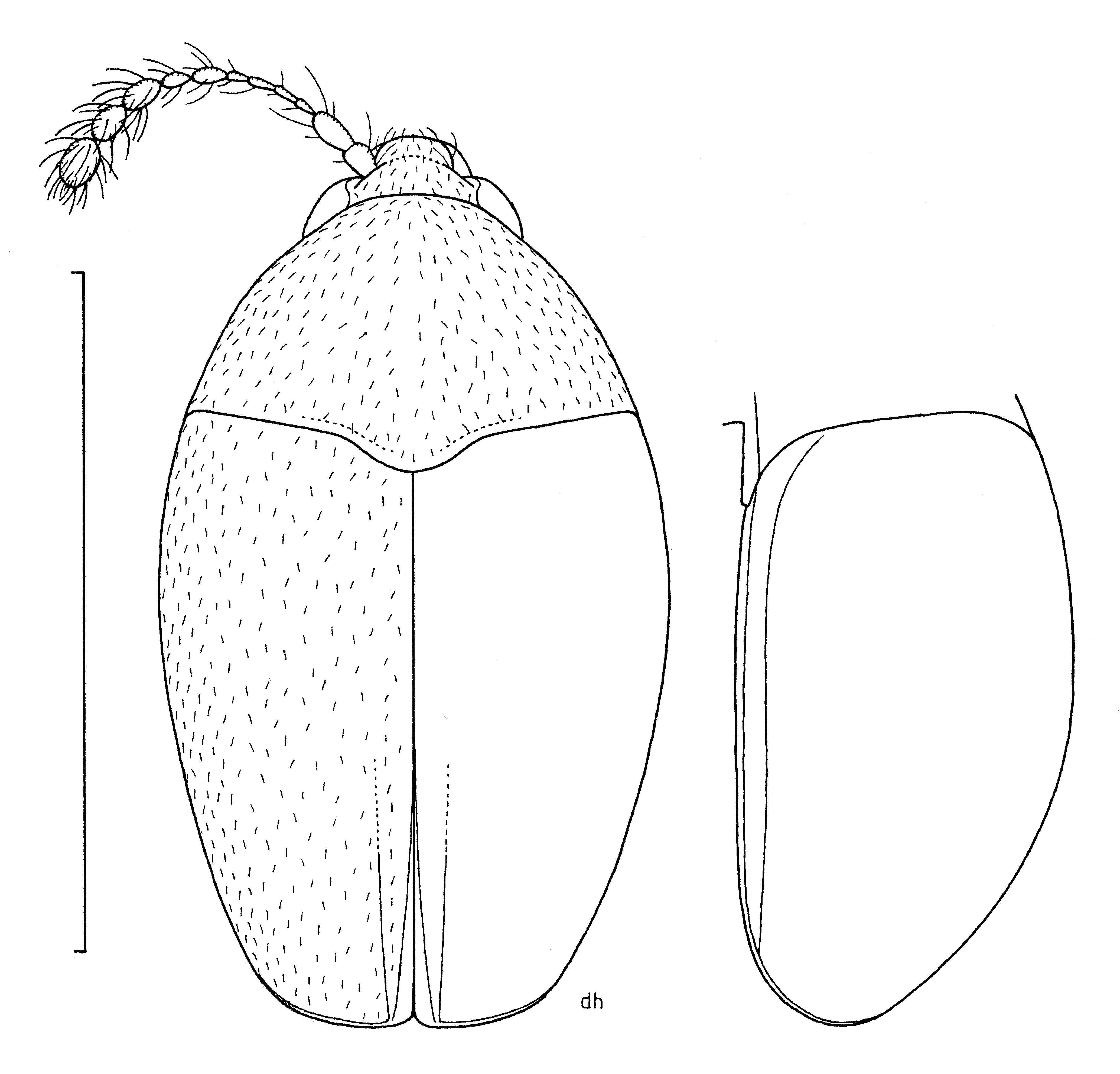 (Coleoptera: Staphylinidae) Baeocera abrupta illustrated by Des Helmore.